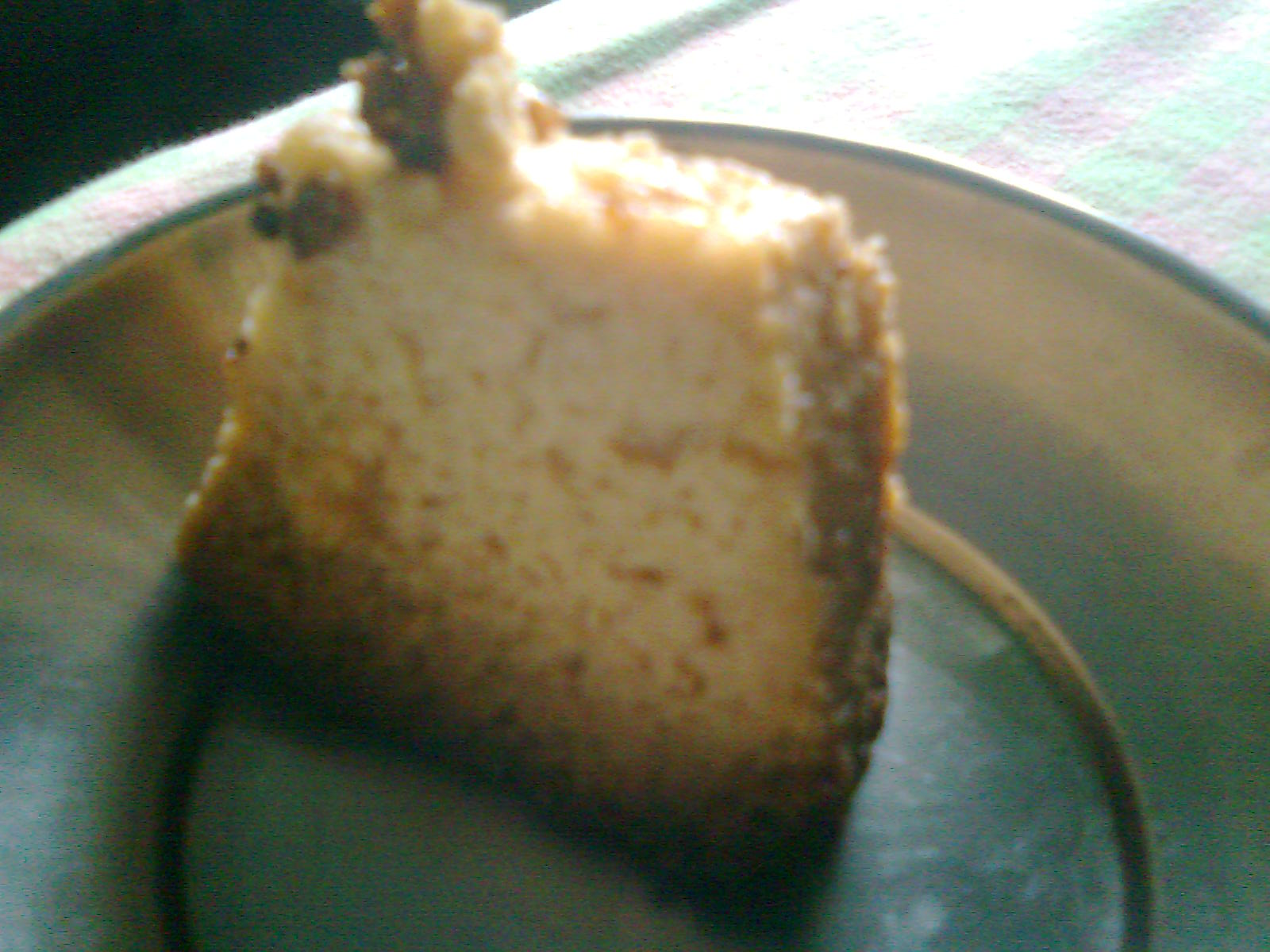 Chhenapoda in oriya cuisine